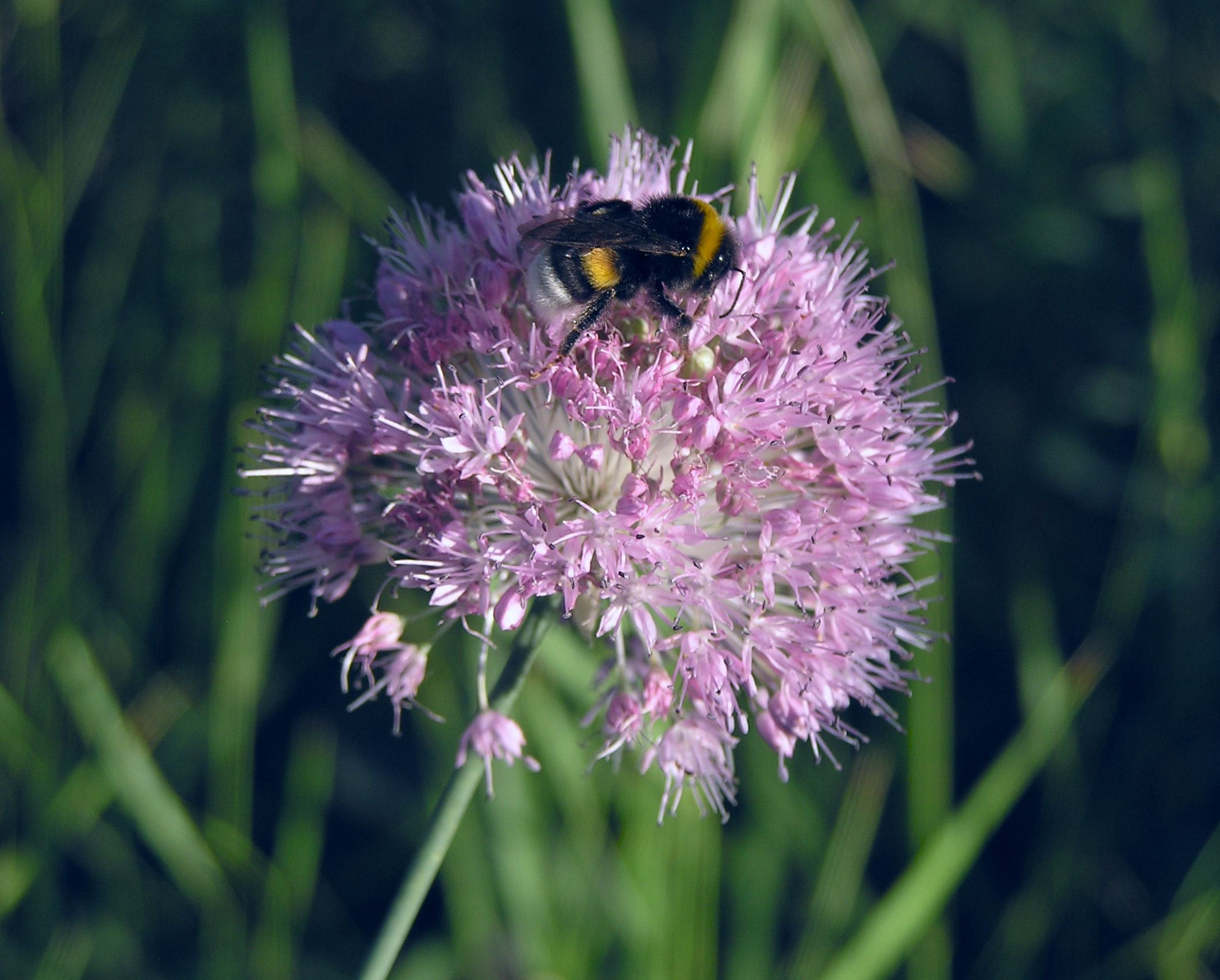 Allium globosum M. Bieb. ex Redoute (syn.: Allium dshungaricum Vved). Vicinity of Saratov city, Russia.